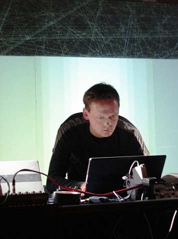 carsten and olaf are the owners of raster-noton.